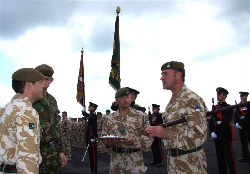 Afghanistan Service Medal Parade, 2nd Battalion (Green Howards) of the Yorkshire Regiment, Weeton Barracks, UK